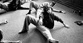 This photo depicts students at the San Francisco Feldenkrais practitioner training program (circa 1978) doing a Awareness Through Movement lesson